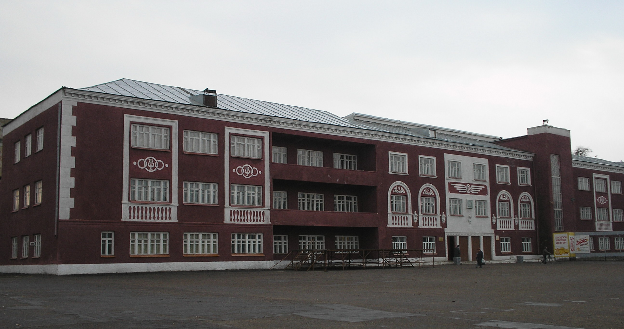 The city cultural centre (Rtishchevo)